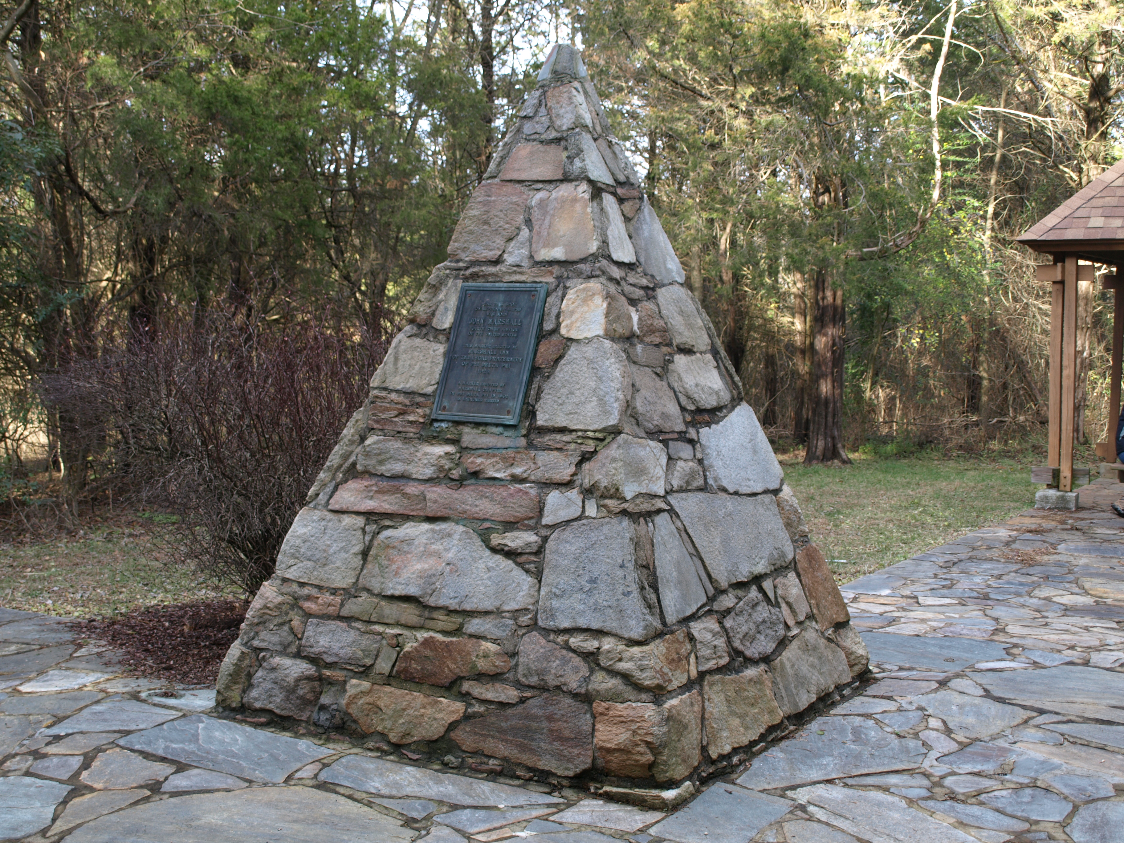 Monument of John Marshall's Birthplace near Germantown, Virginia.